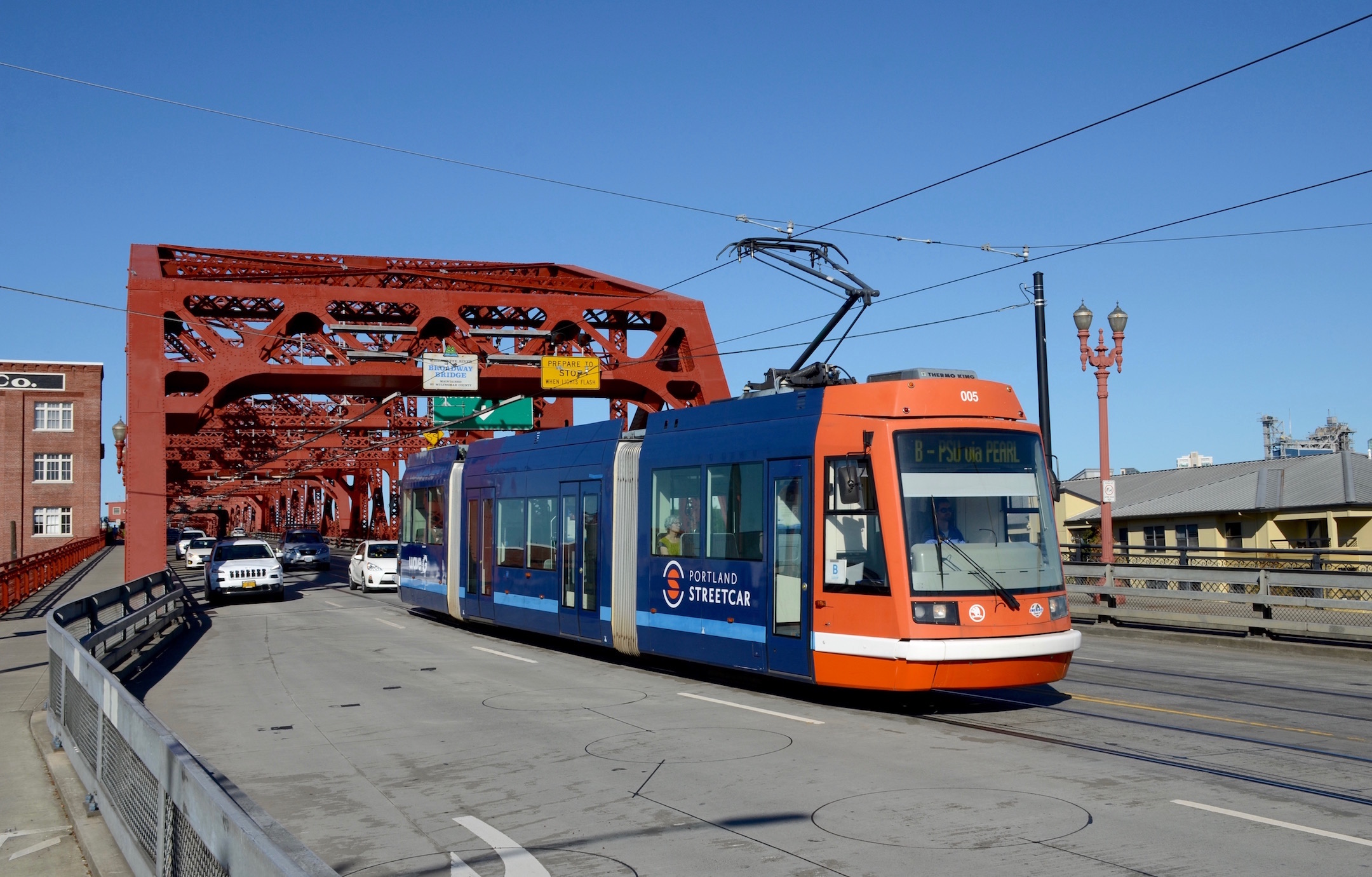 Car 005 of the Portland Streetcar system, a 2001 Škoda/Inekon 10T, is leaving the Broadway Bridge (in Portland, Oregon), on the B Loop service, a counterclockwise loop. The Broadway Bridge is a bascule-type drawbridge that was completed in 1913 and is listed on the U.S. National Register of Historic Places. It has carried streetcars from 1913 to 1940 and again since 2012.